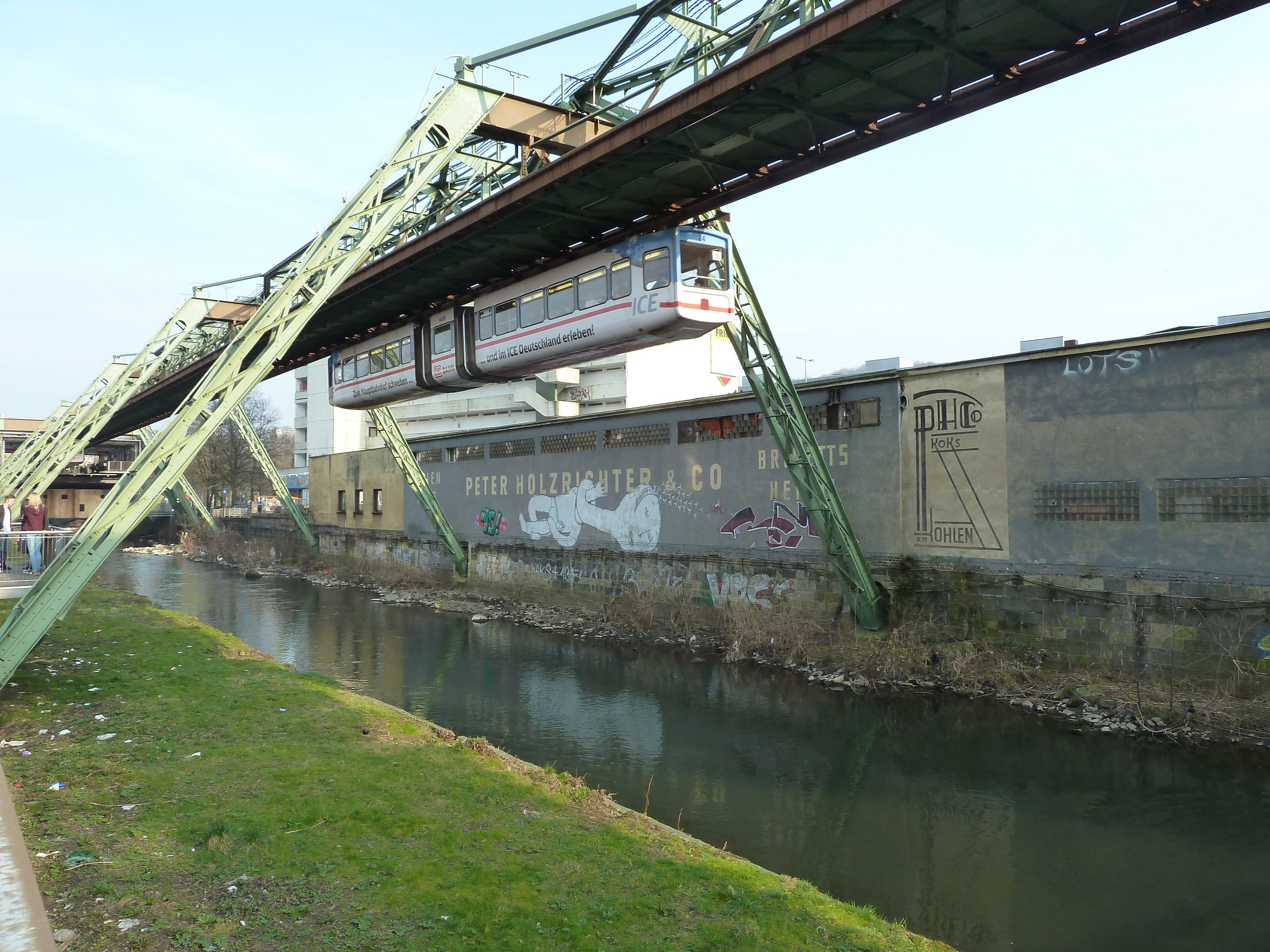 Graffiti from the 2006 art projekt "Streetart-Attack" at the Wupper river (Unterdörnen) in Wuppertal, Germany